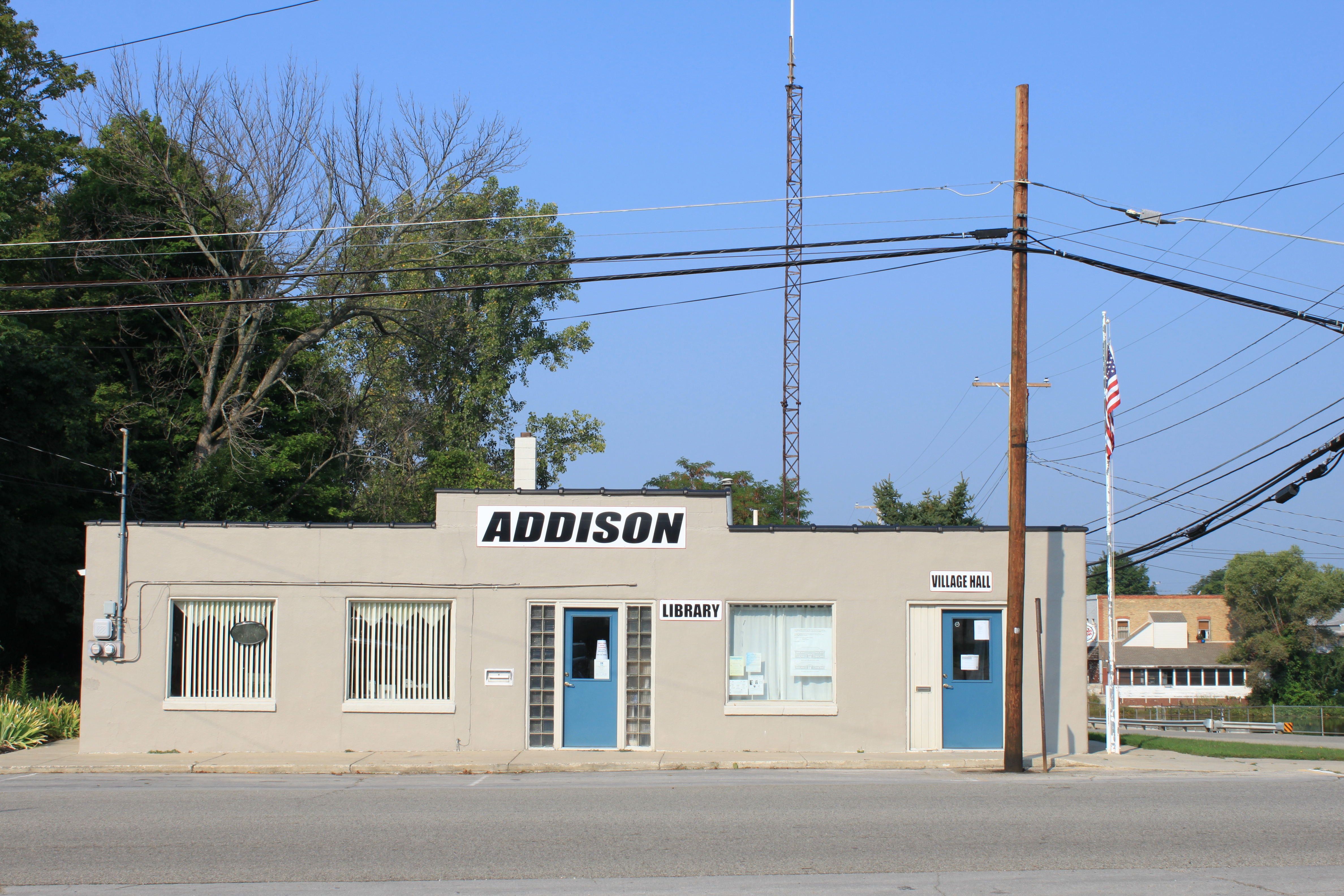 Village of Addison Library and Village Hall, 103 West Main Street, Addison, Michigan.